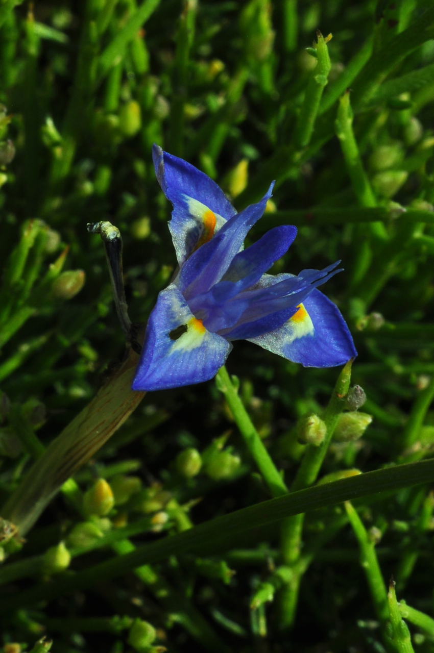 Gynandriris monophylla "This is undoubtedly the smallest of the irises with a perianth which does not exceed 2 cm. The flowers are usually light blue or violet, the three external parts with a yellow fleck surrounded by white. There is only one leaf - hence the name; the latter is dart-shaped with a length which can reach to 30 cm. Found in stony locations and phrygana. The name of the genus originates from the Greek words 'gyni' and 'andras' ('woman and man'), and refers to the reproductive organs of the plant - the style and stamens - which are joined."